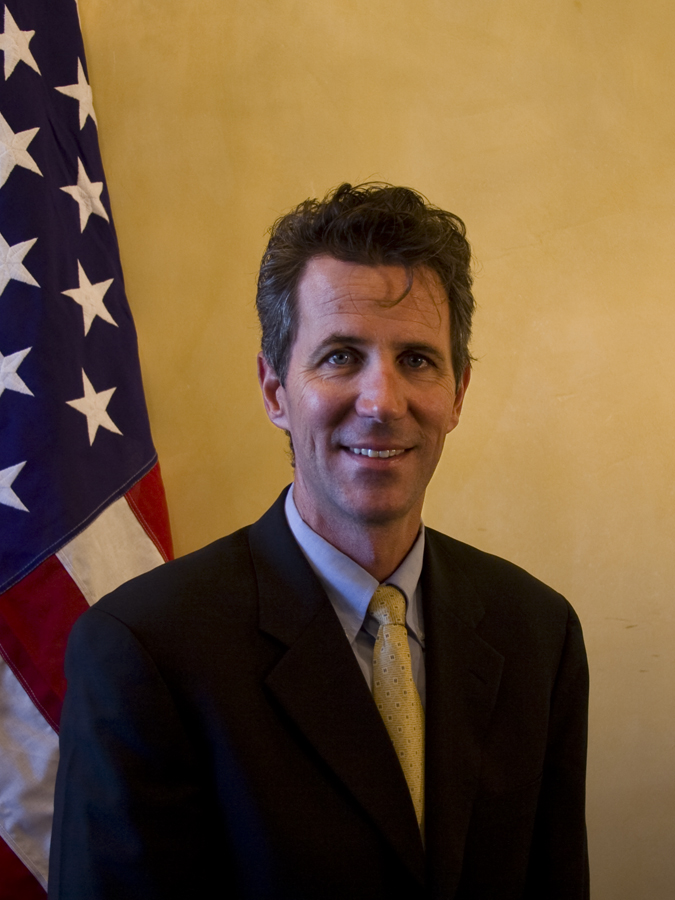 Tom Sullivan